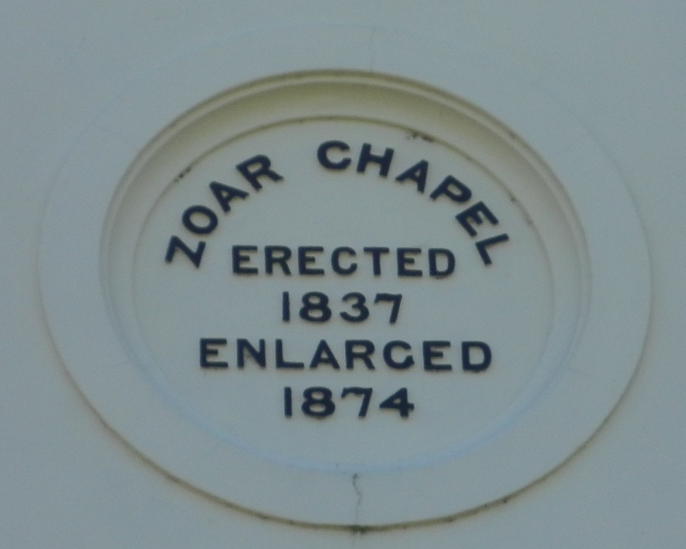 Zoar Strict Baptist Chapel, Lower Dicker, Wealden District, East Sussex, England. Built in 1837 and enlarged in 1874. This date plaque is high on the façade within the building's pediment.